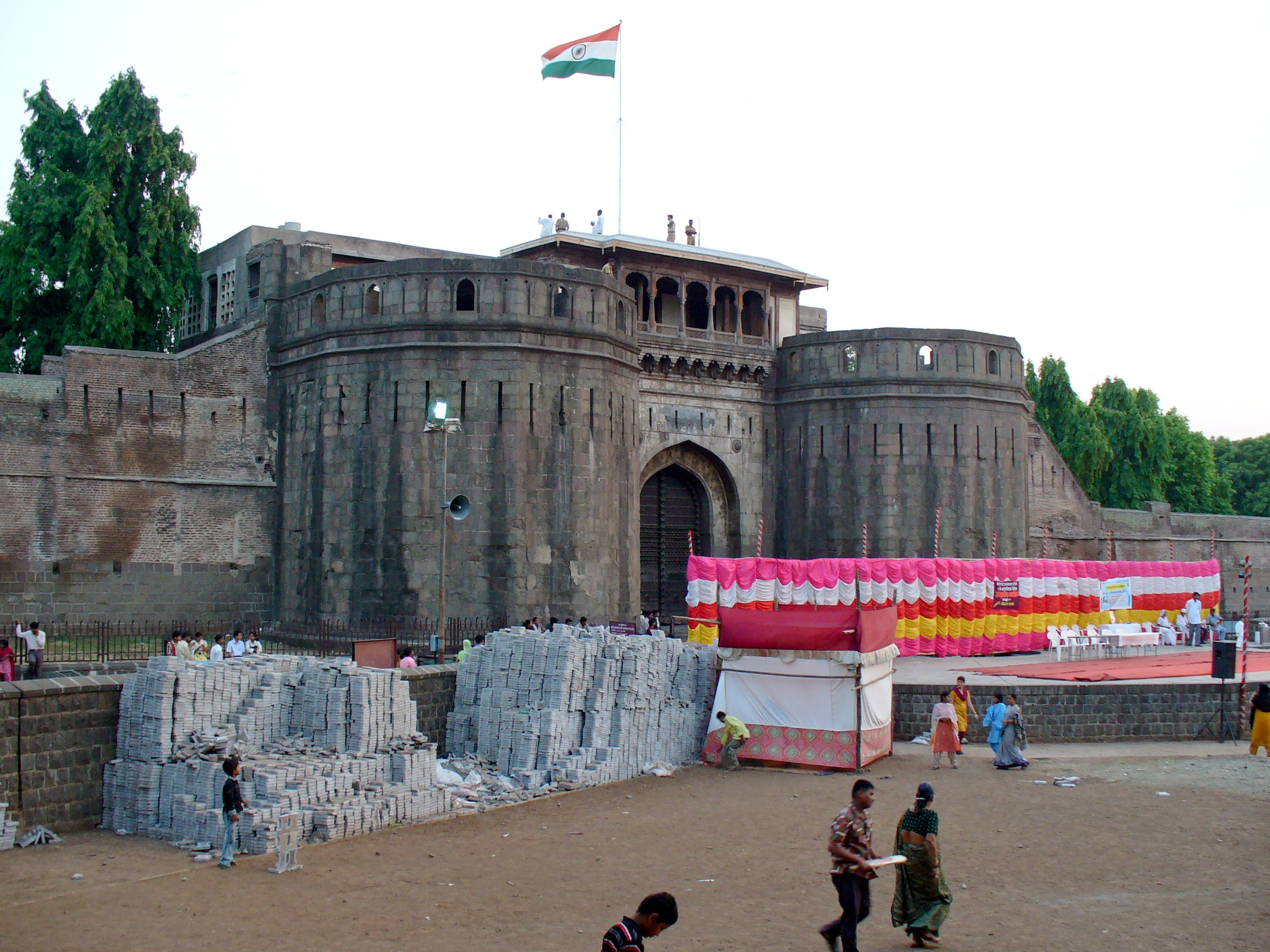 The "Dilli Darwaza" (Delhi Gate) of Shaniwarwada, a palace fort in Pune, India.